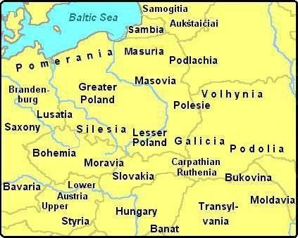 Historical lands and provinces in Central Europe